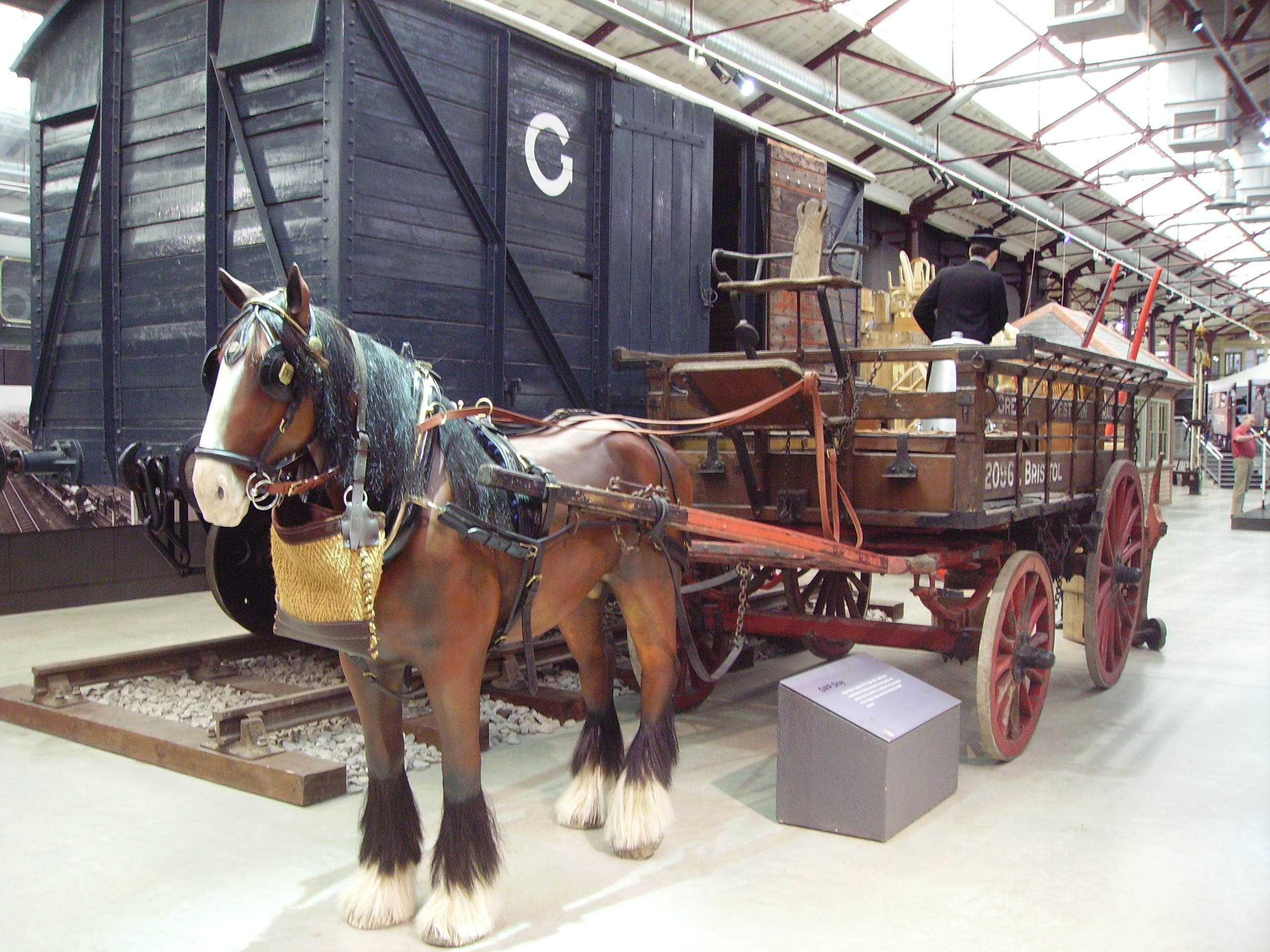 Photographer: User:Ballista Taken in the Steam Museum, Swindon